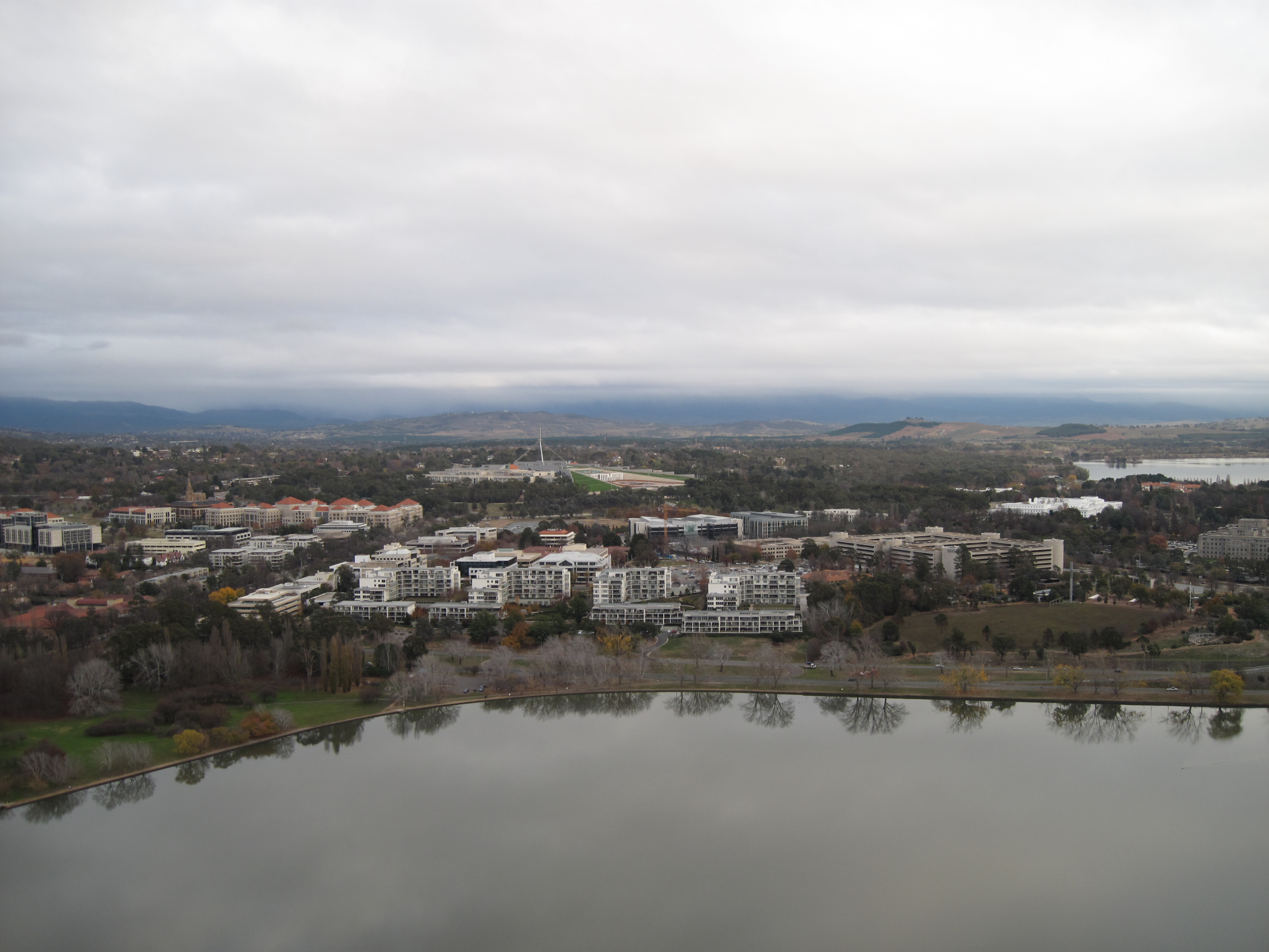 Barton and the eastern Parliamentary zone.